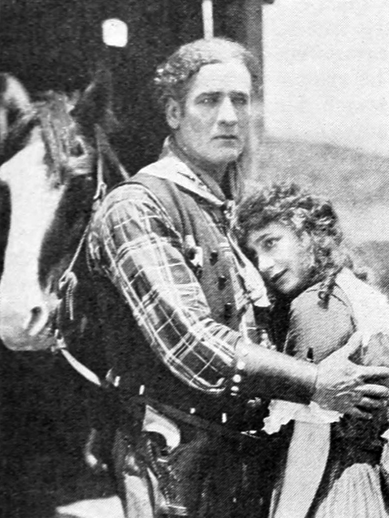 Actors Tom Santschi and Ruth Stonehouse in Mother o' Dreams